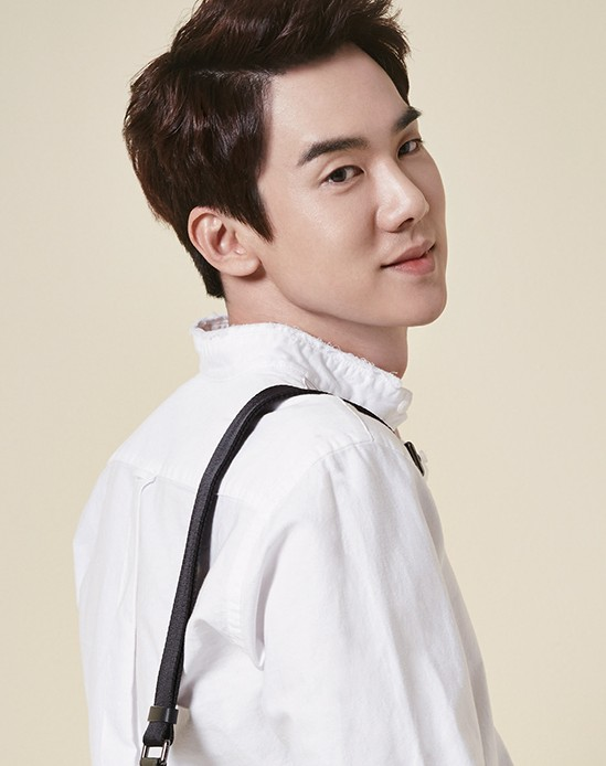 Yoo Yeon-seok - Bean Pole catalogue 2015 Spring-Summer